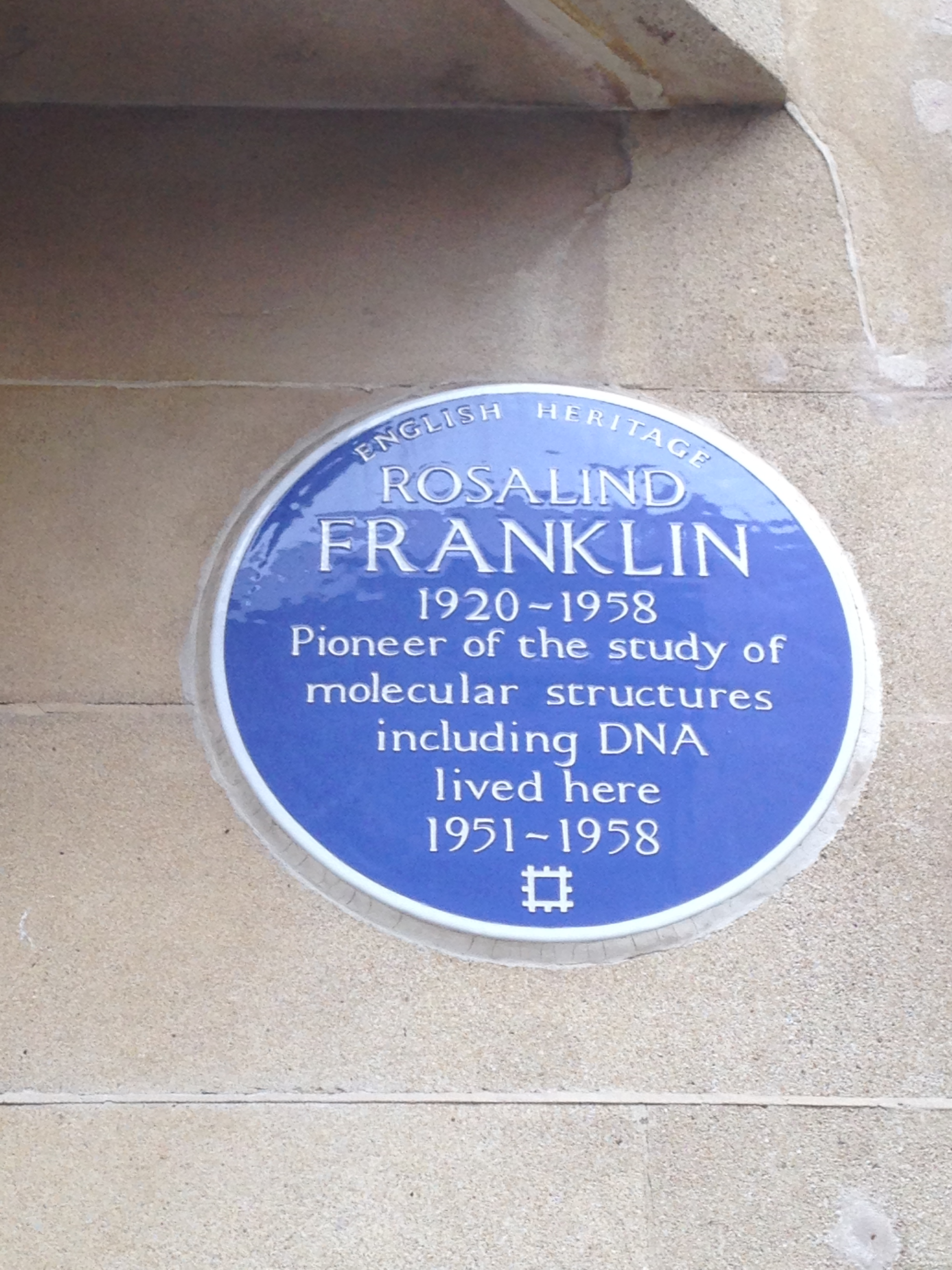 An English Heritage blue plaque for Rosalind Franklin at Donovan Court, Drayton Gardens, Chelsea, SW10 9QS in the Royal Borough of Kensington and Chelsea.